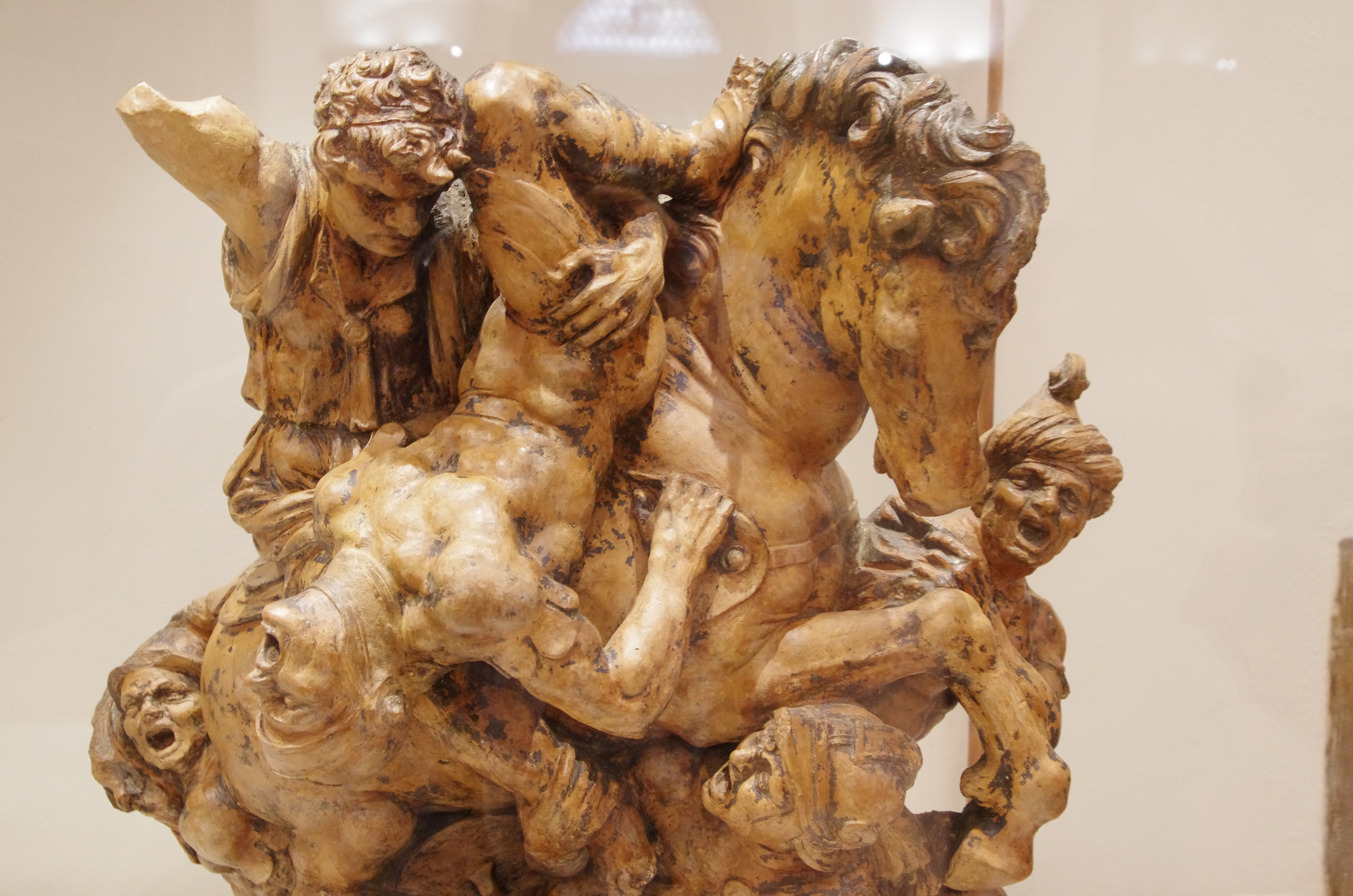 03 2015 Giovanni Francesco Rustici from the Battle of Anghiari of Leonardo da Vinci-National Museum of the Bargello (Florence) Photo Paolo Villa FOTO9233